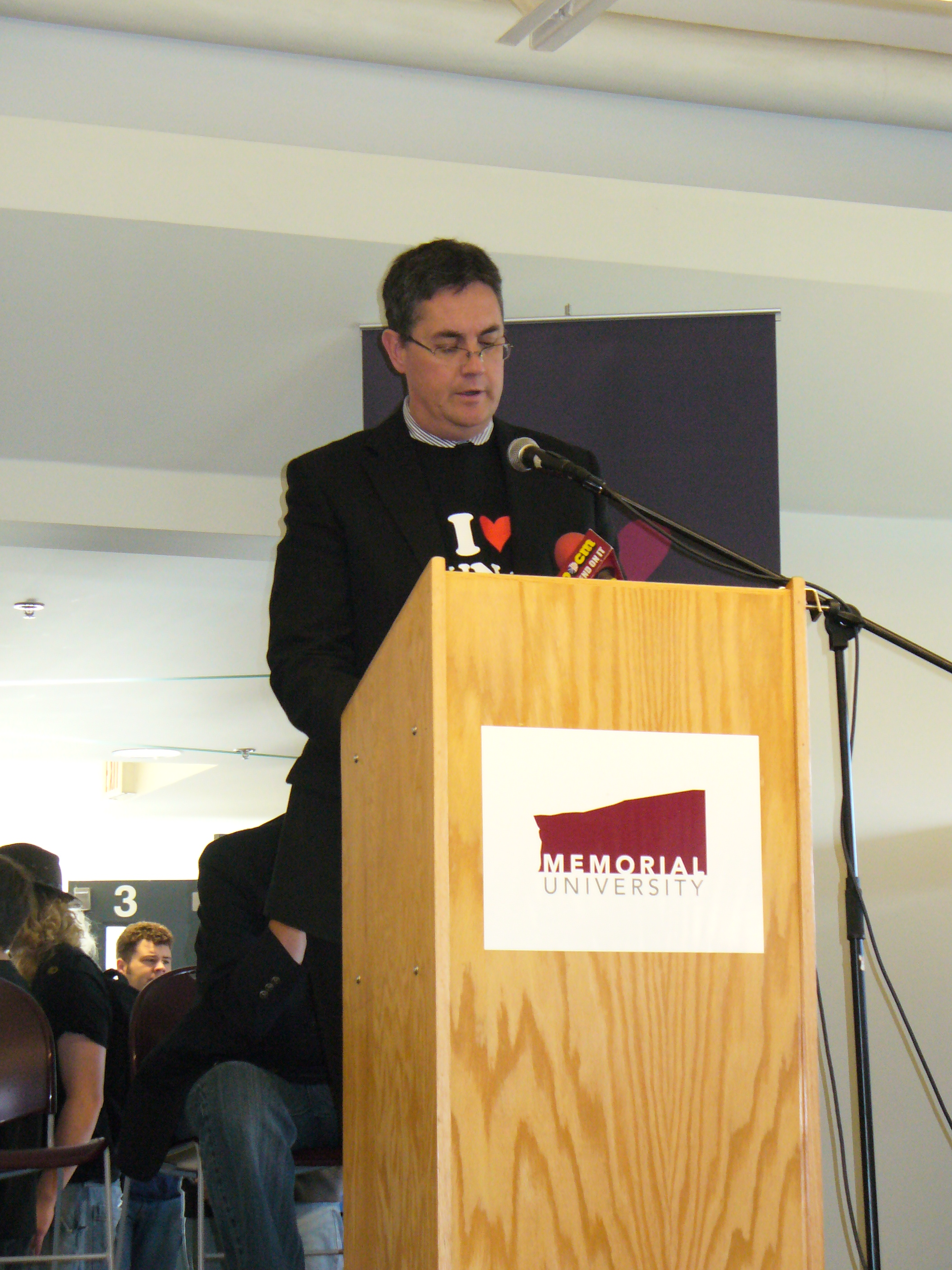 I am the originator of this photo. I hold the copyright. I release it to the public domain. This photo depicts Eddy Campbell speaking at Memorial University of Newfoundland for the opening of "I Love MUNdays" in 2007.